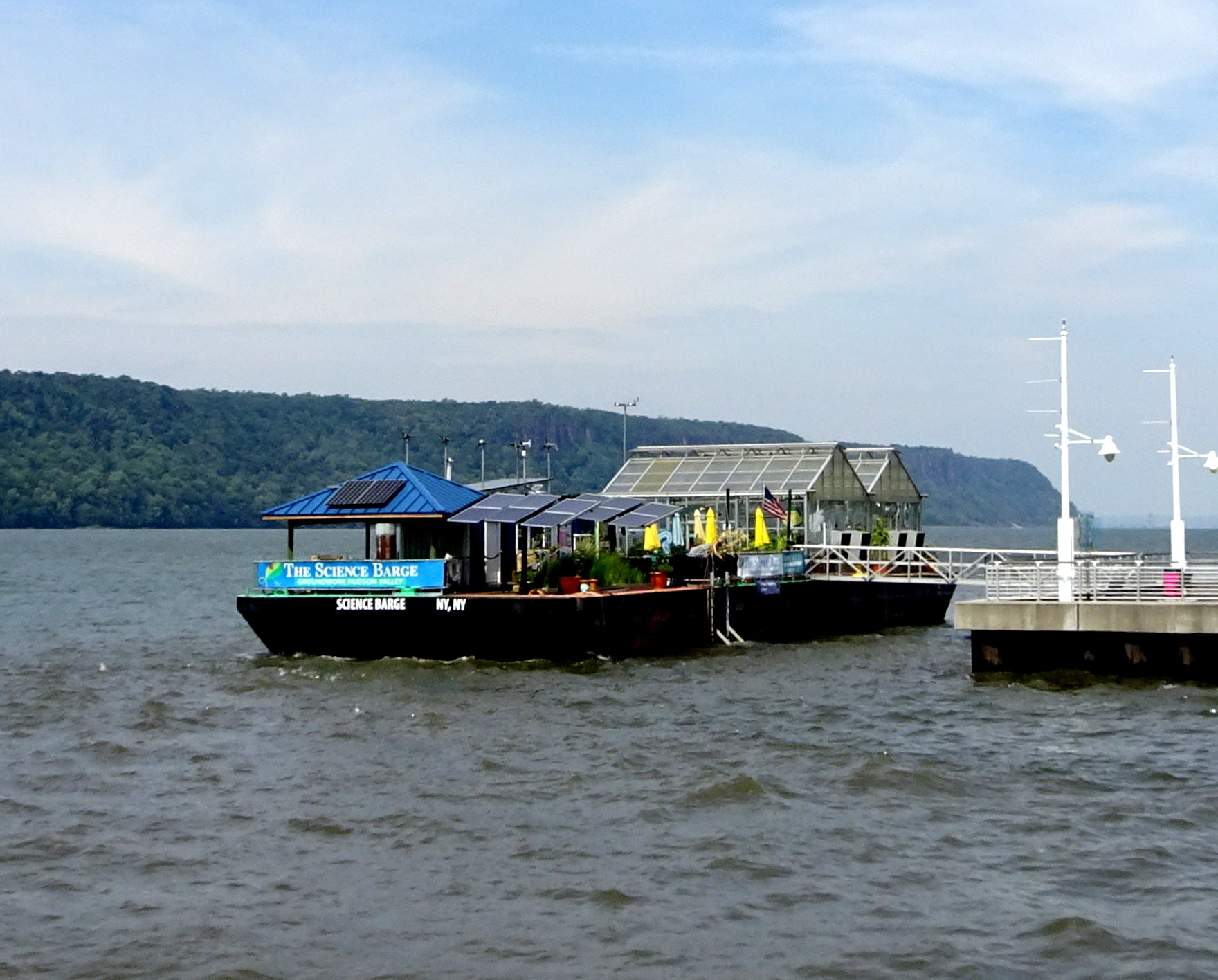 Looking north at Science barge docked at Yonkers on a mostly sunny midday.